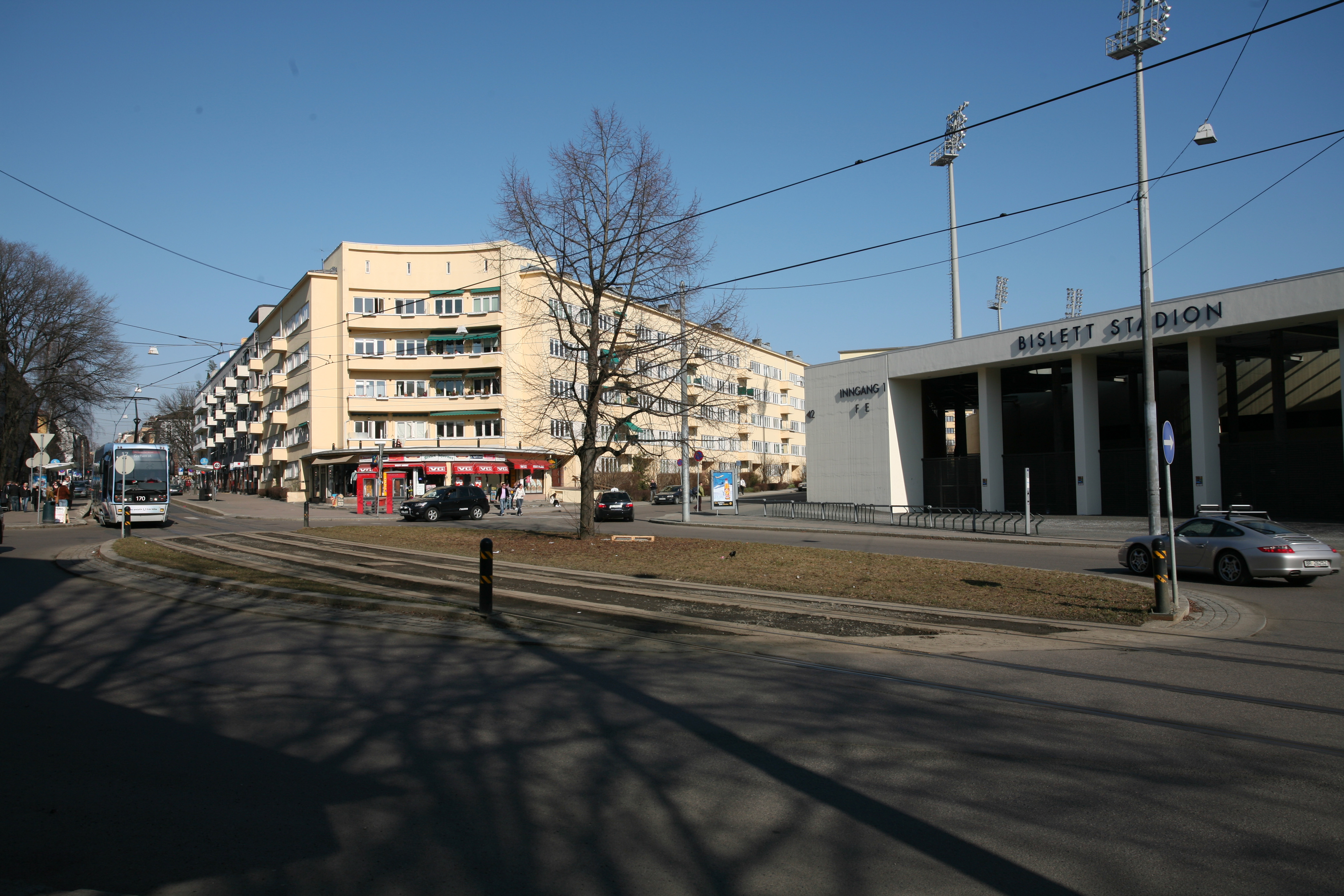 Picture of Bislett Plass (Norway)